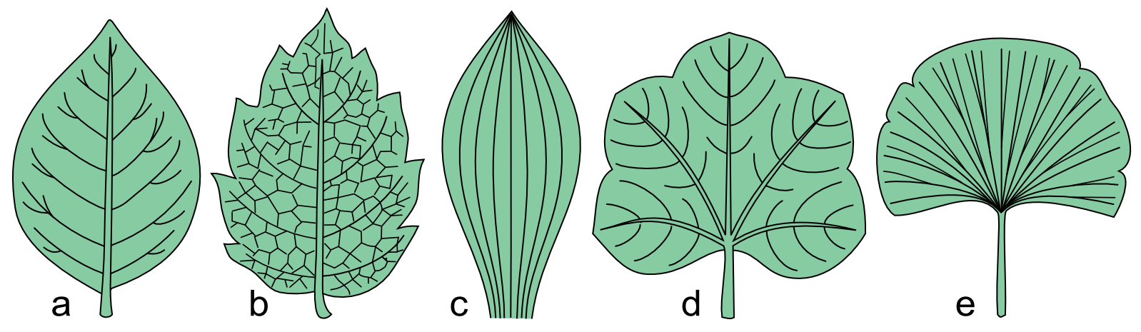 Venation. Legend: a. pinnate, b. reticulate, c. parallel, d. palmate, e. fan, dichotomous.